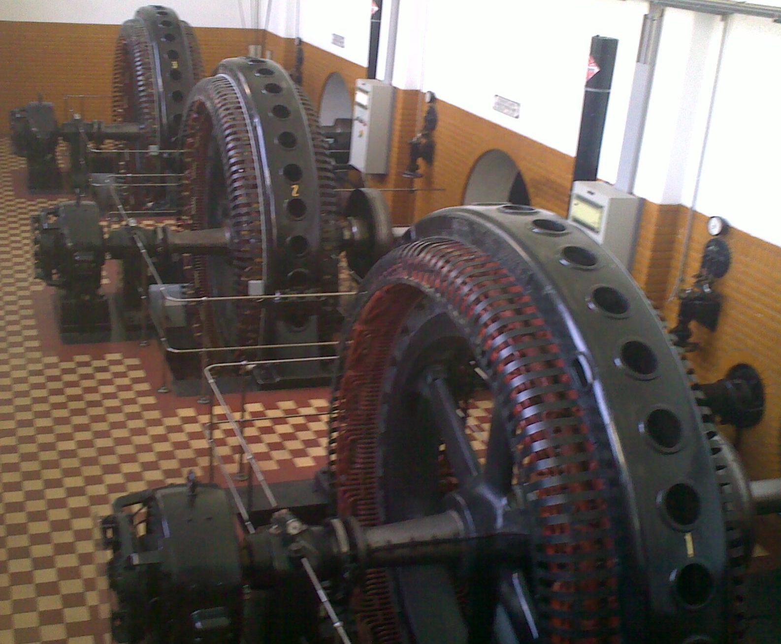 Machinery hall in Danish Museum of Electricity